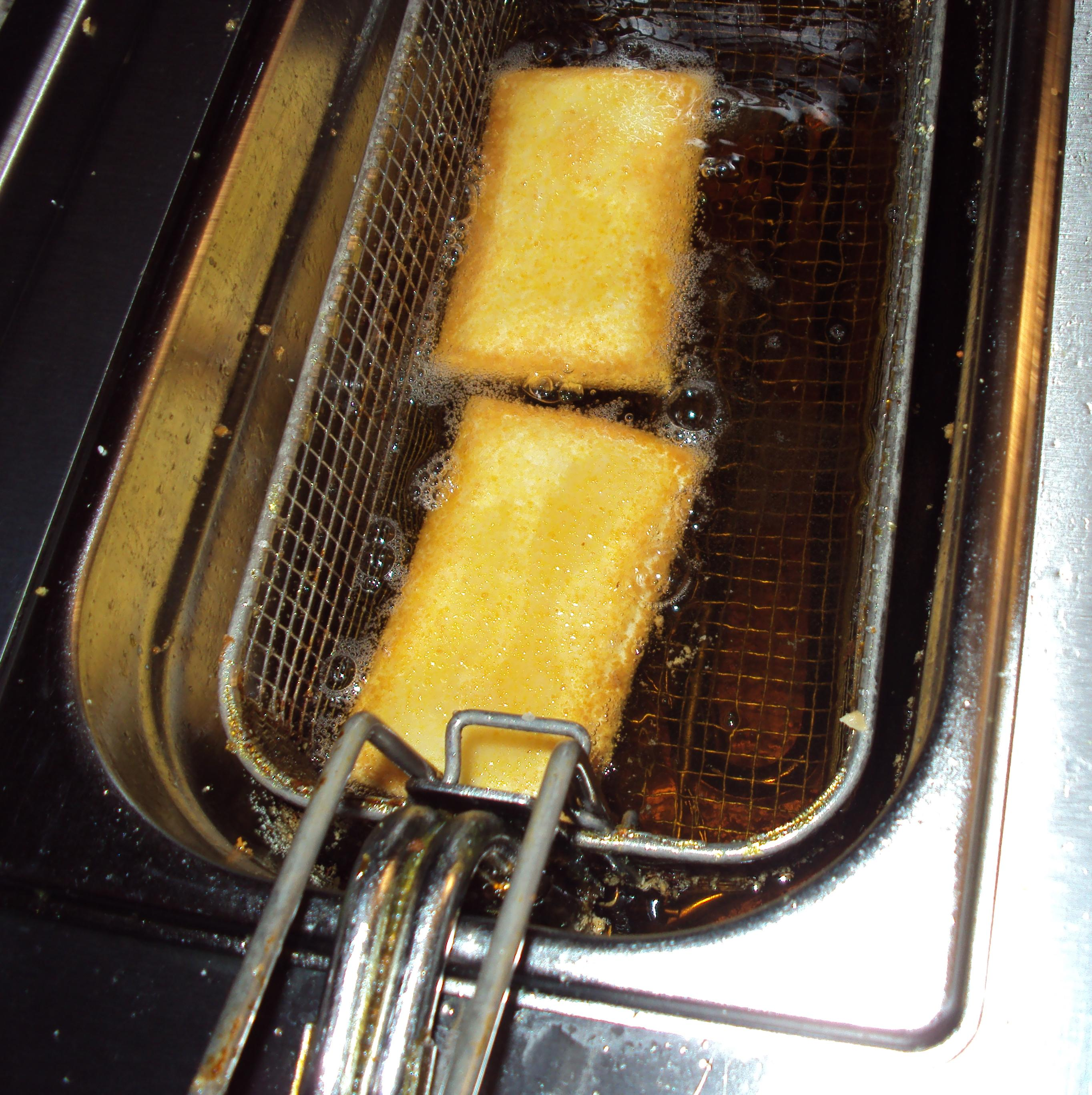 Two kaassoufflés being deep fried